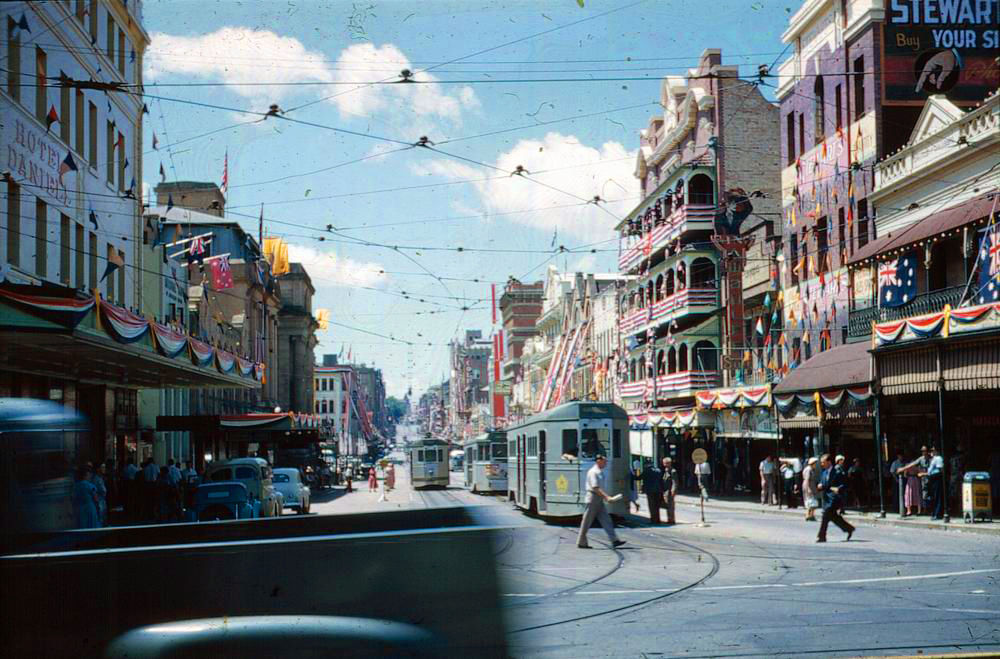 Trams in Adelaide Street, Brisbane. The street is decorated for the arrival of Queen Elizabeth II